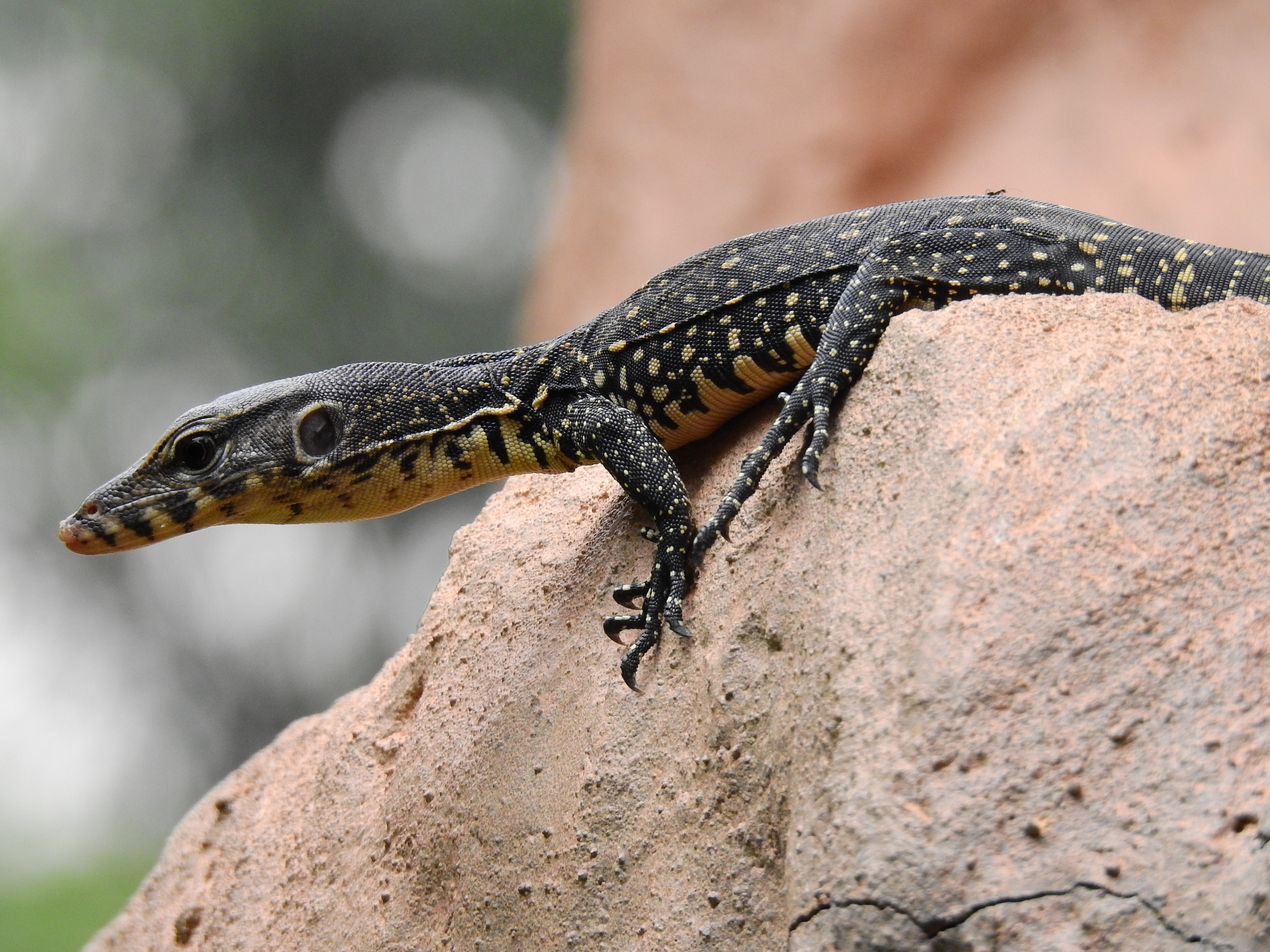 Clouded Monitor Lizard Varanus nebulosus juvenile